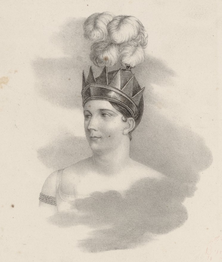 Caroline Grassari as Almasie in Nicolas Isouard's opera Aladin ou La lampe merveilleuse